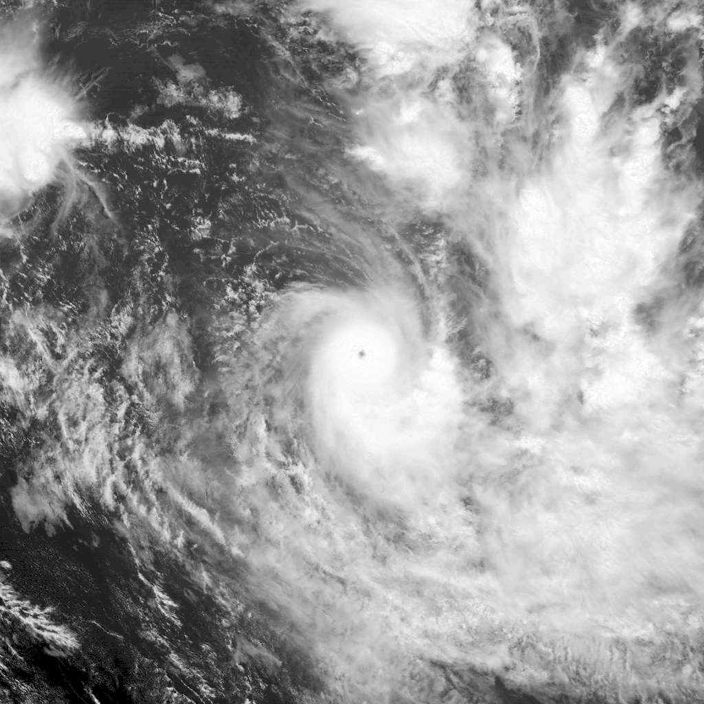 Severe Tropical Cyclone Xavier at peak intensity